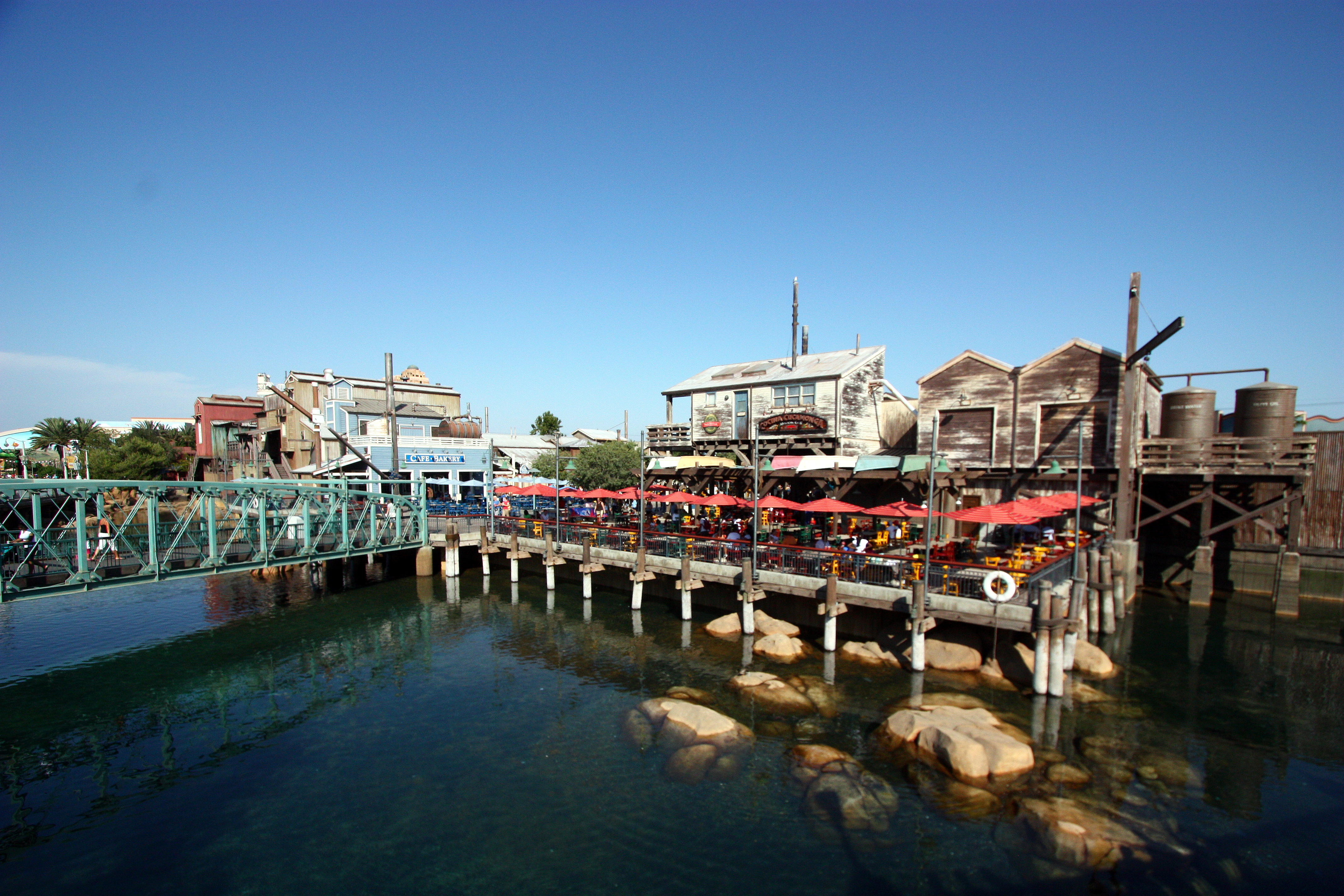 The Pacific Wharf area at Disney's California Adventure